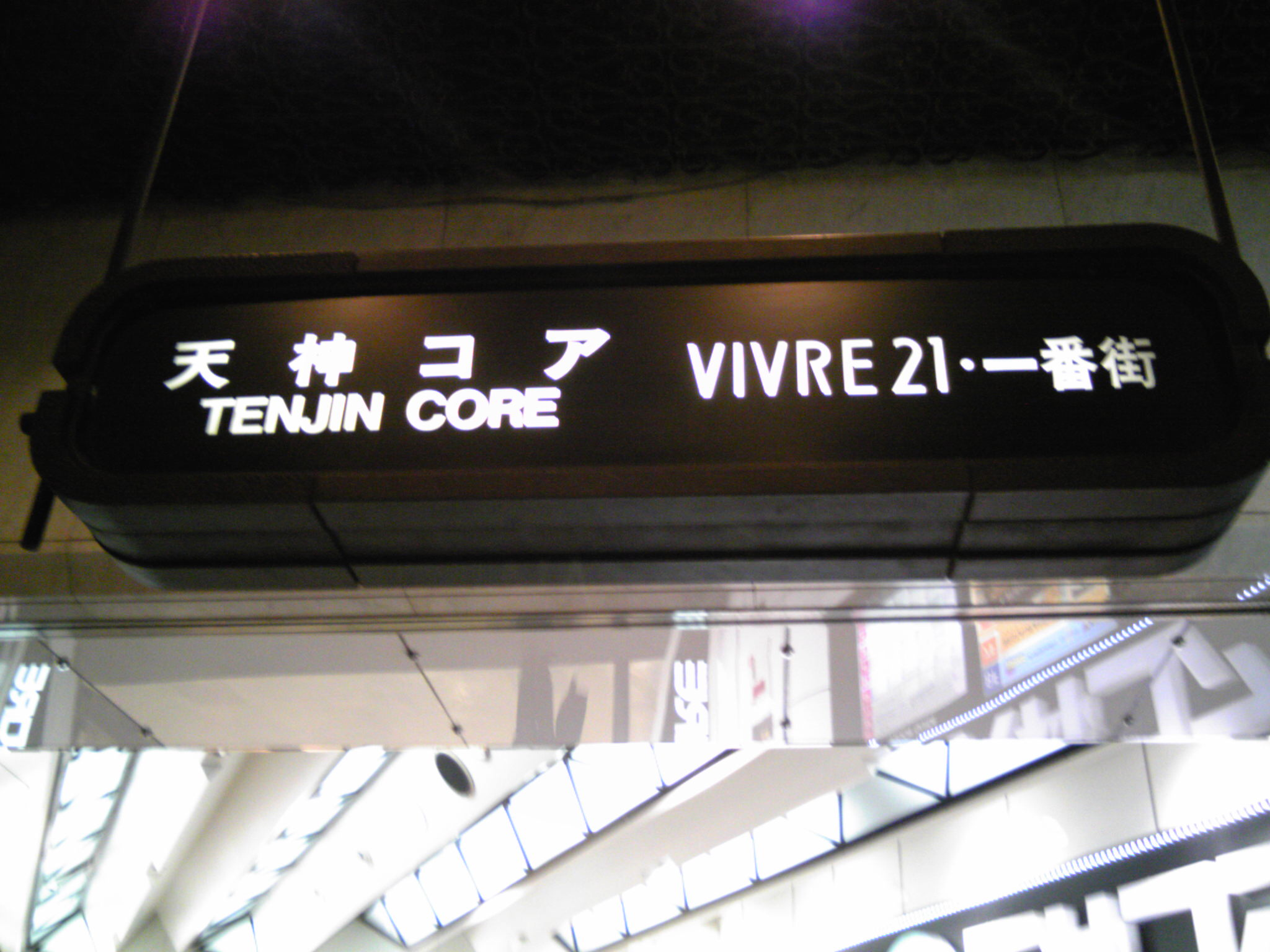 Sign for Tenjin Core and Tenjin VIVRE at Tenjin Chikagai in Chuo-ku, Fukuoka City